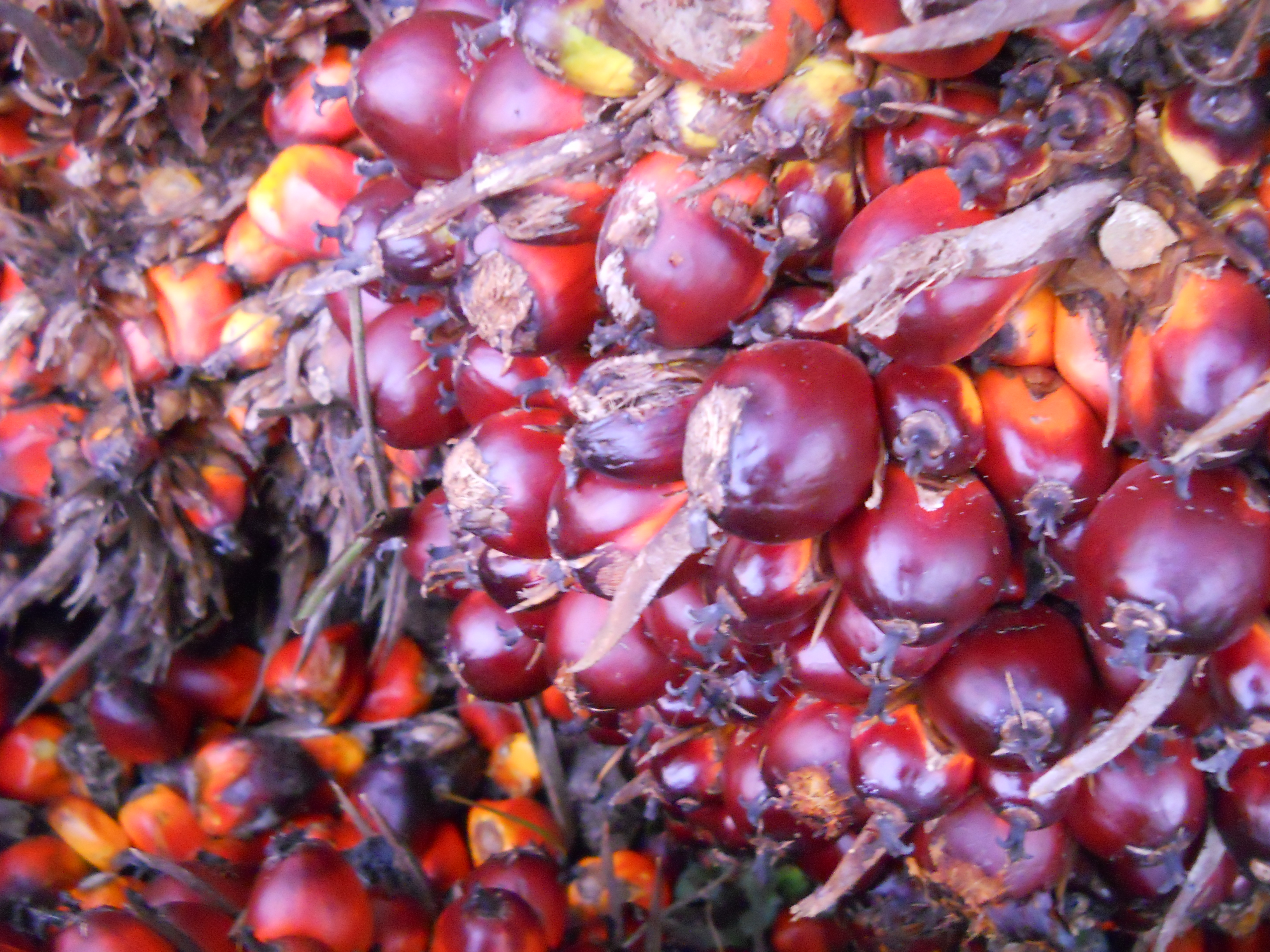 Malayalam loves Wikimedia event - 2011 April